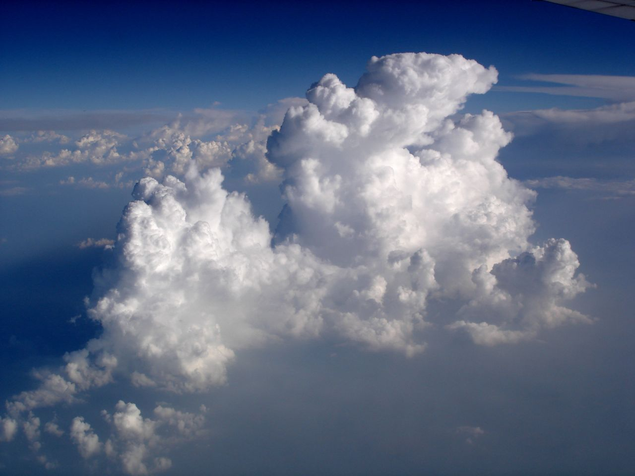 Cloud photographed through airplane window.